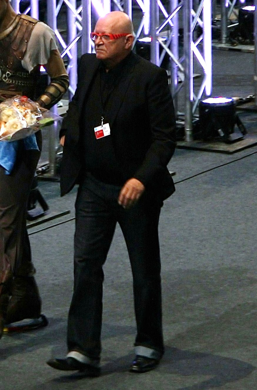 Karel Fajfr at the 2010 Trophée Eric Bompard